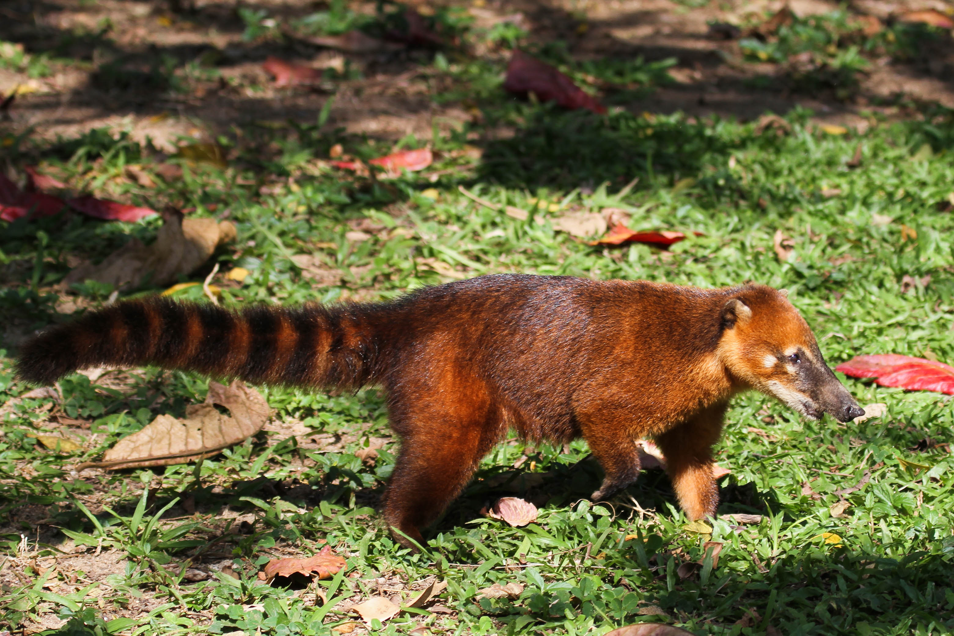 South American Coati (Nasua nasua). Wild specimen living on Ihla Anchieta, Ubatuba, Brazil.